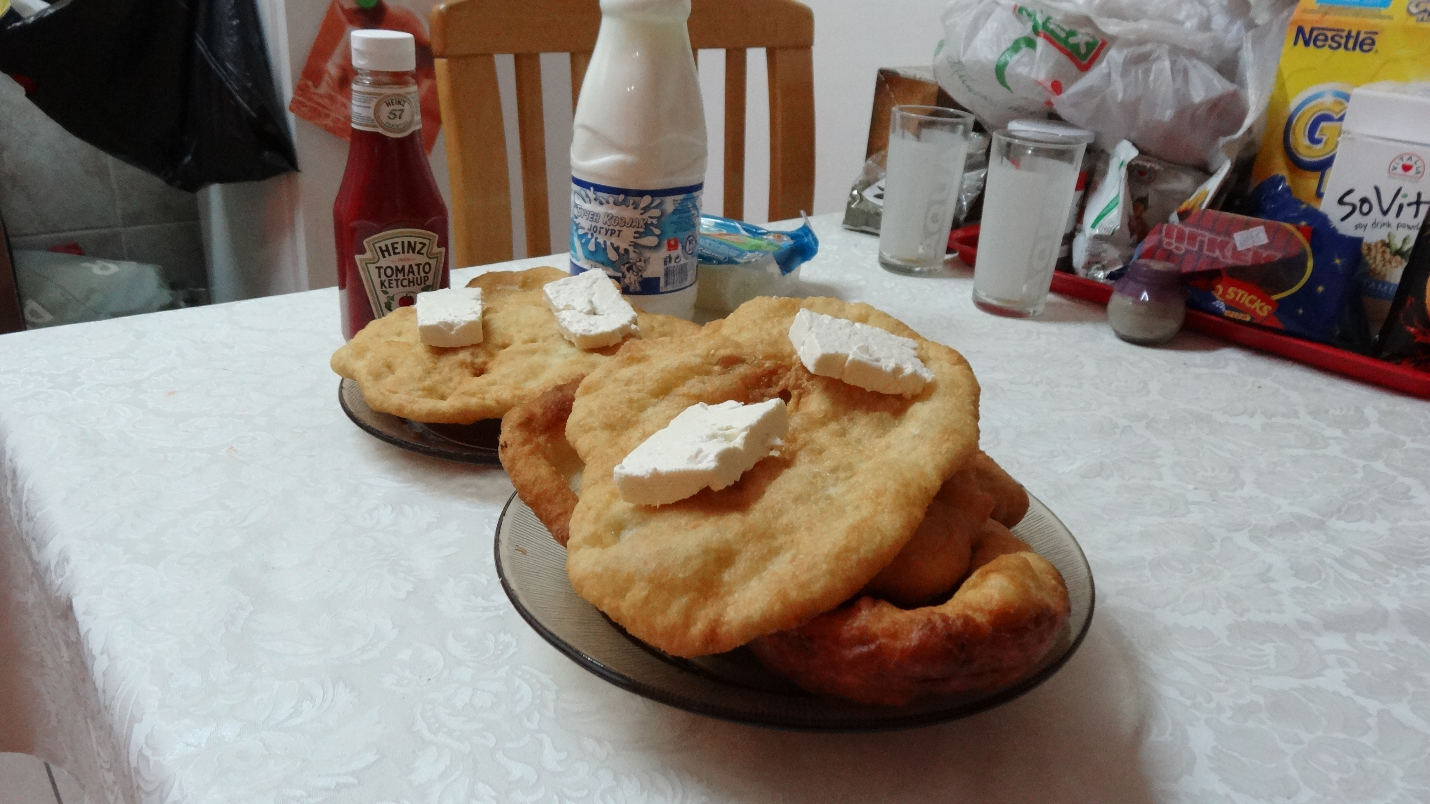 Mekica is a food made from a liquid mixture of dough frying in oil. Served with cheese or sugar-lubricated. In Macedonia it is a tradition when a child is born, parents to wait for mickels.